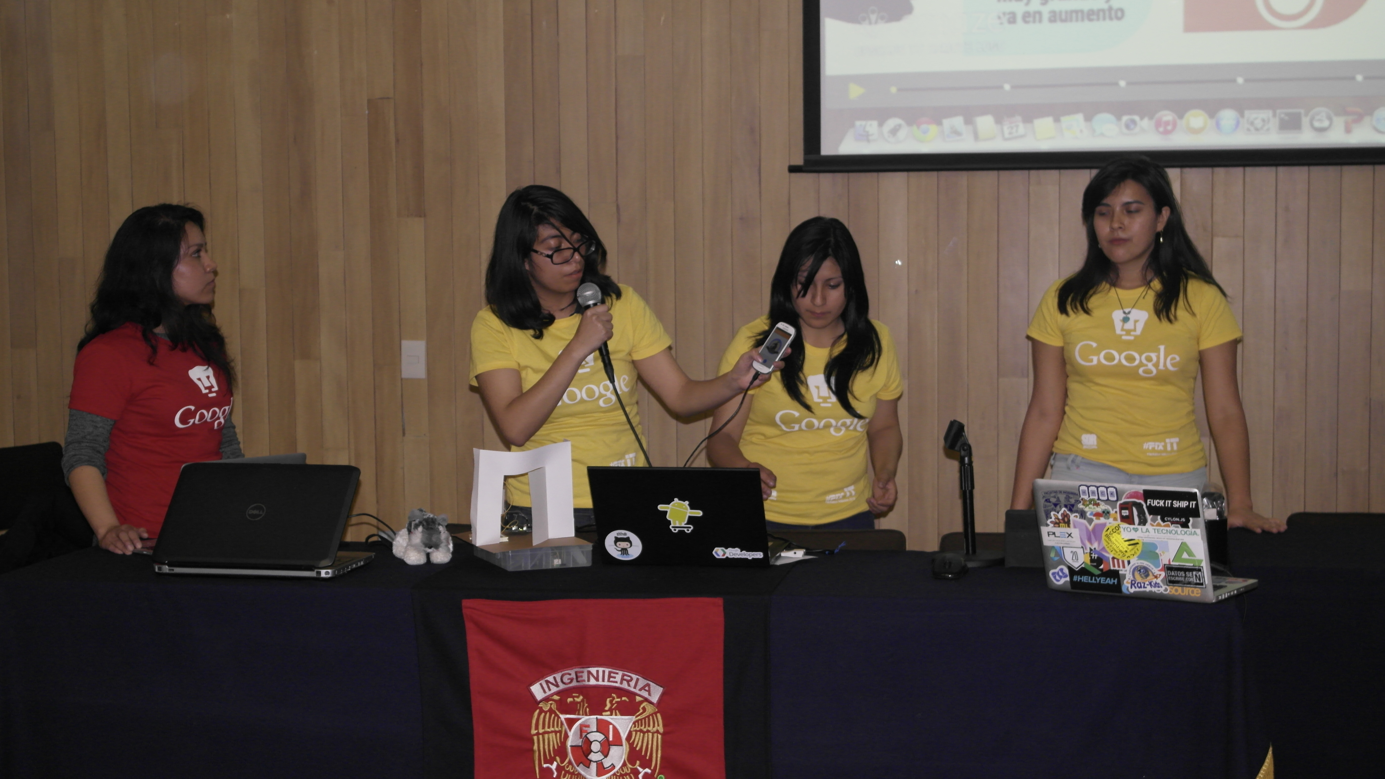 All women hackathon at UNAM. A team presenting their projects